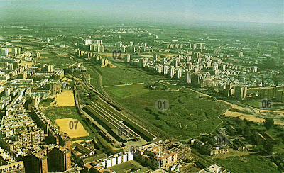 Prado de Santa Justa en los años 80 del siglo XX